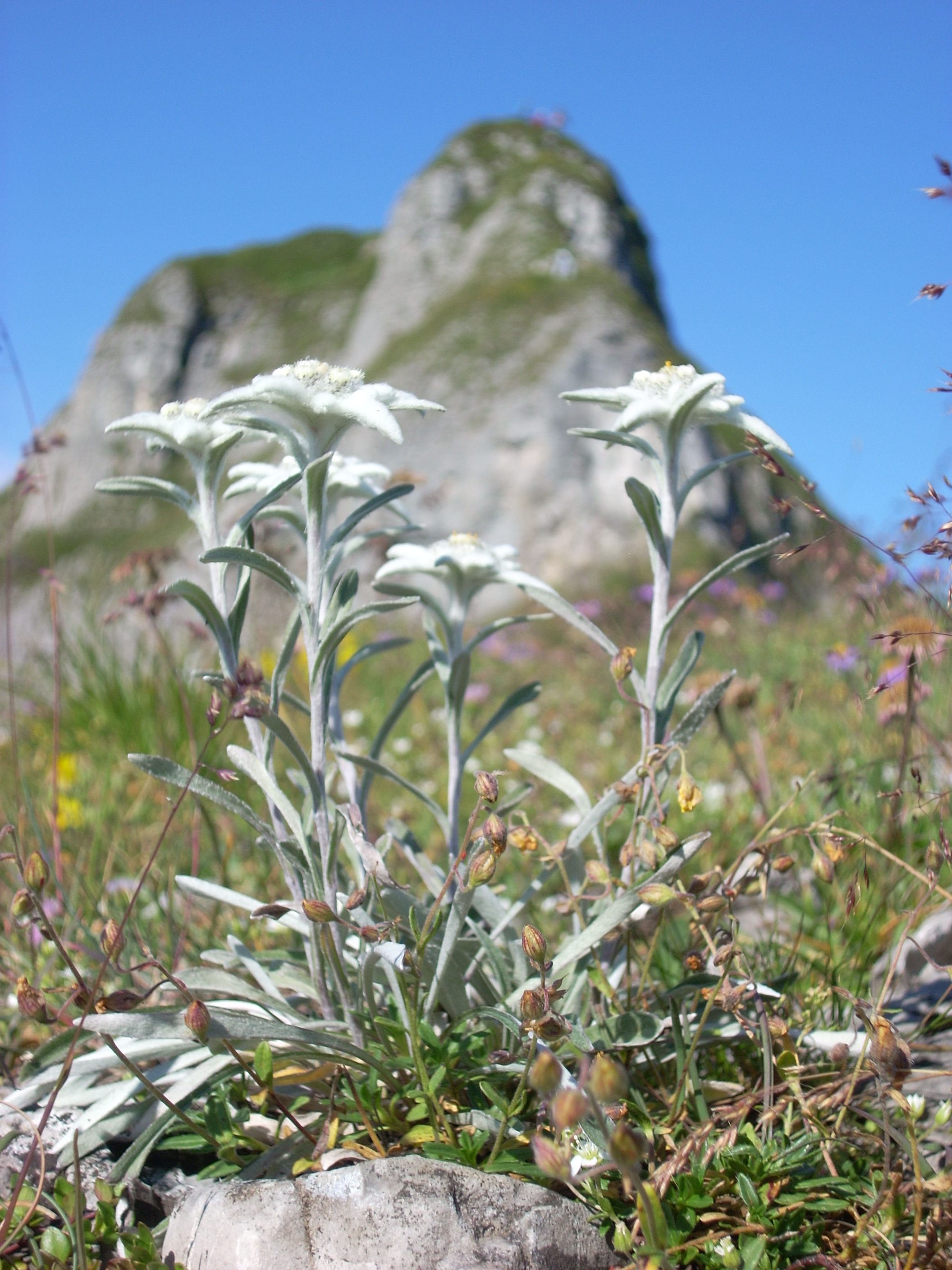 Edelweiss (Leontopodium alpinum) on the Kanisfluh